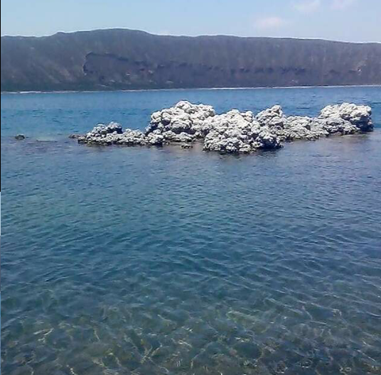 Through this picture is looked the beauty of Alchichica's Lake. The blue color of its water